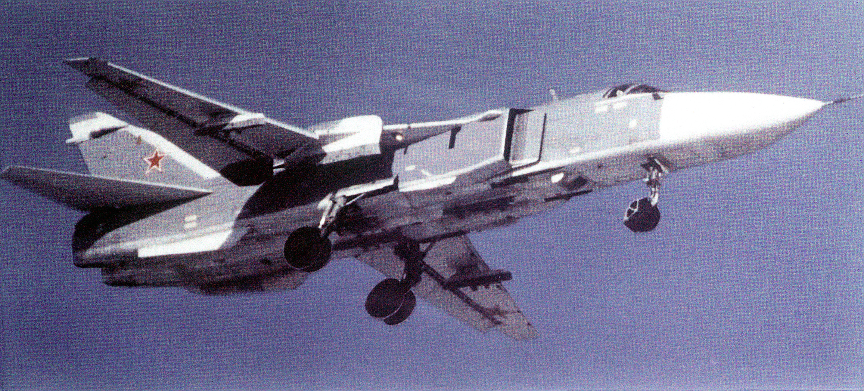 A right underside view of a Soviet Su-24 Fencer aircraft in flight.